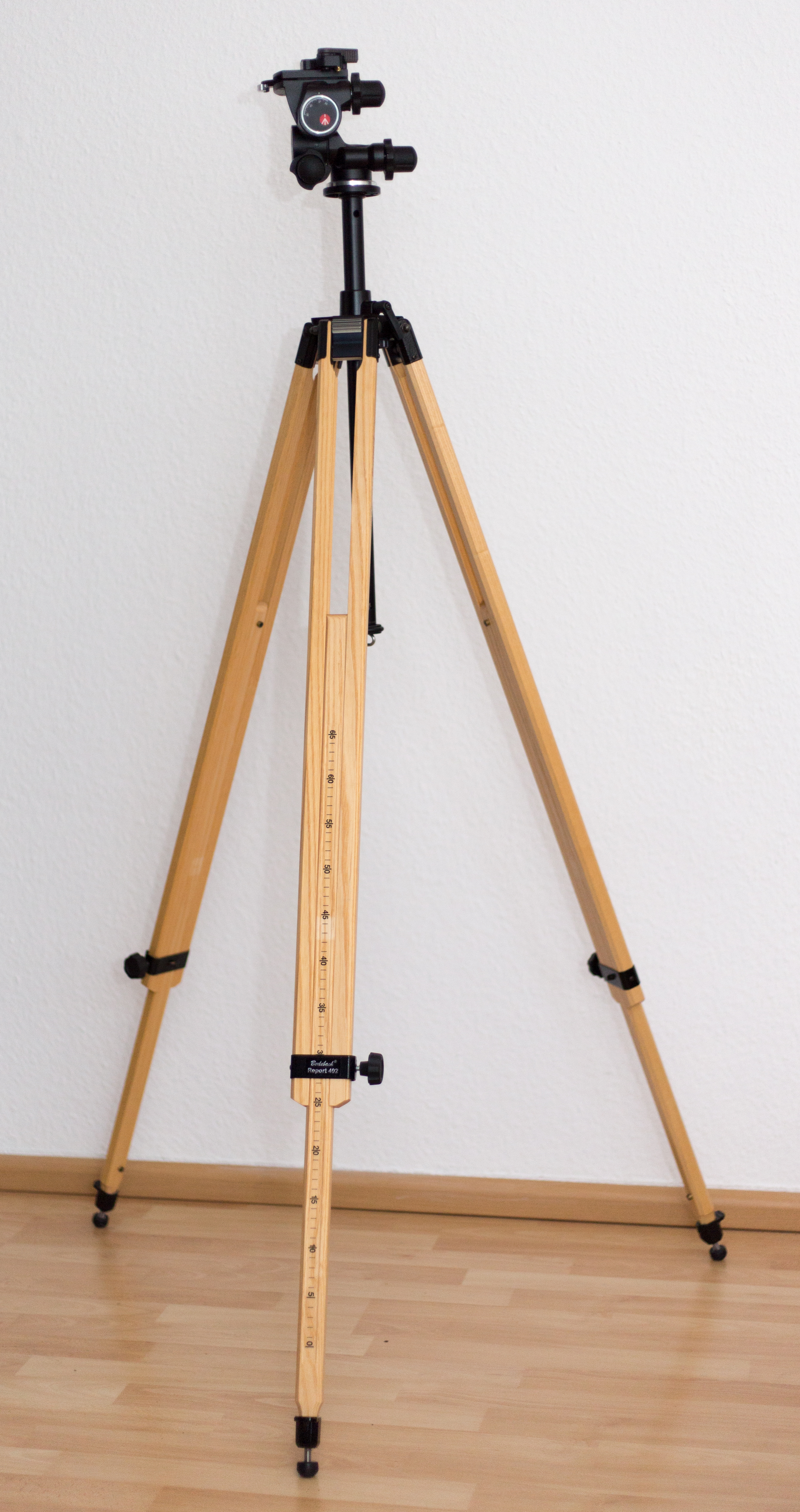 Berlebach Tripod Type Report 402. The Tripod was mad from ash / Fraxinus (wood).